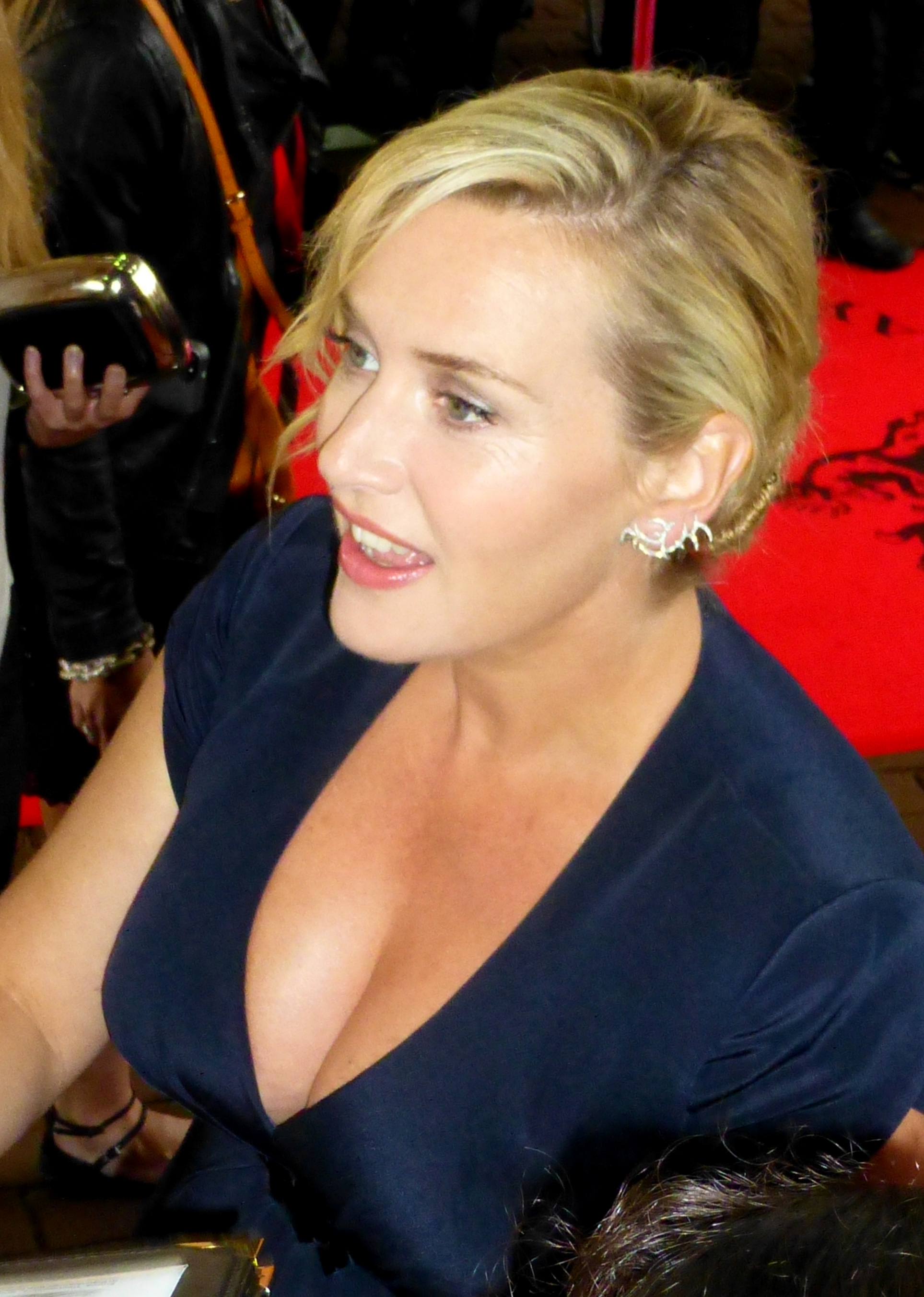 Kate Winslet at the premiere of Labor Day, Toronto Film Festival 2013